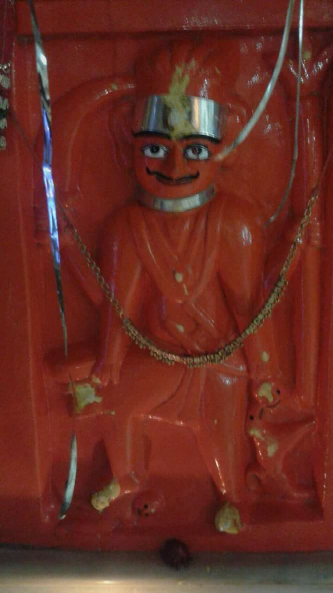 Idol of Adhishtayak dev(installant god)